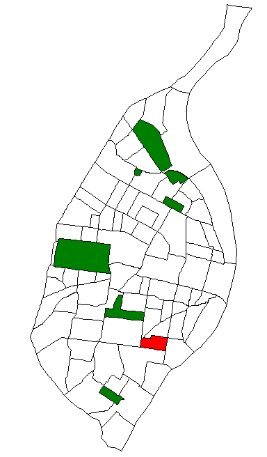 Map of St. Louis Neighborhood #19